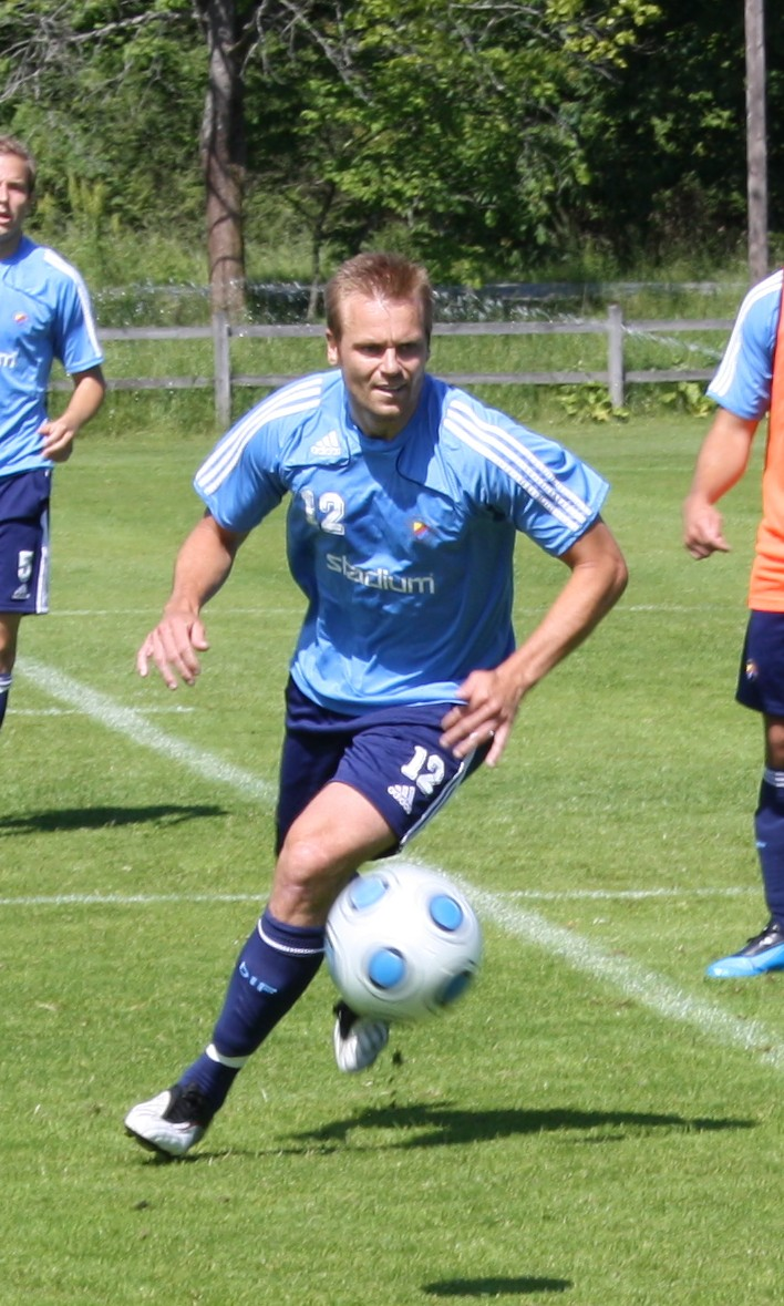 Swedish football player Mattias Jonson.